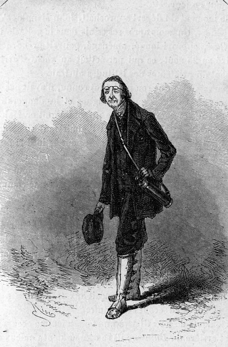 An ilustration from the novel "In Search of the Castaways; or Captain Grant's Children" by Jules Verne drawn by Édouard Riou.